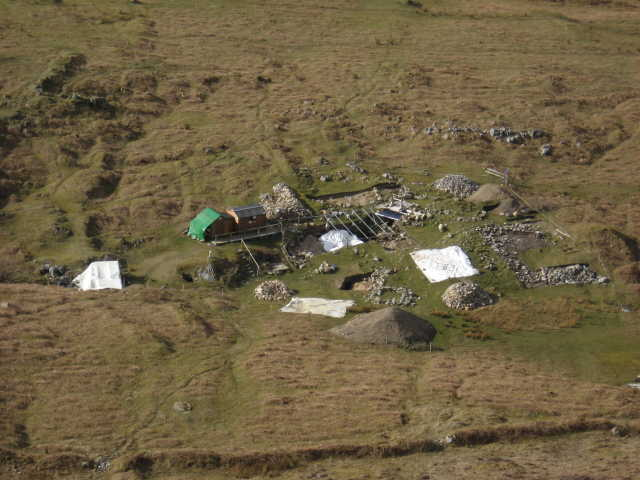 High Pasture Cave near to Kilbride A closer view of the Bronze age site clearly showing the layout of the enclosure.